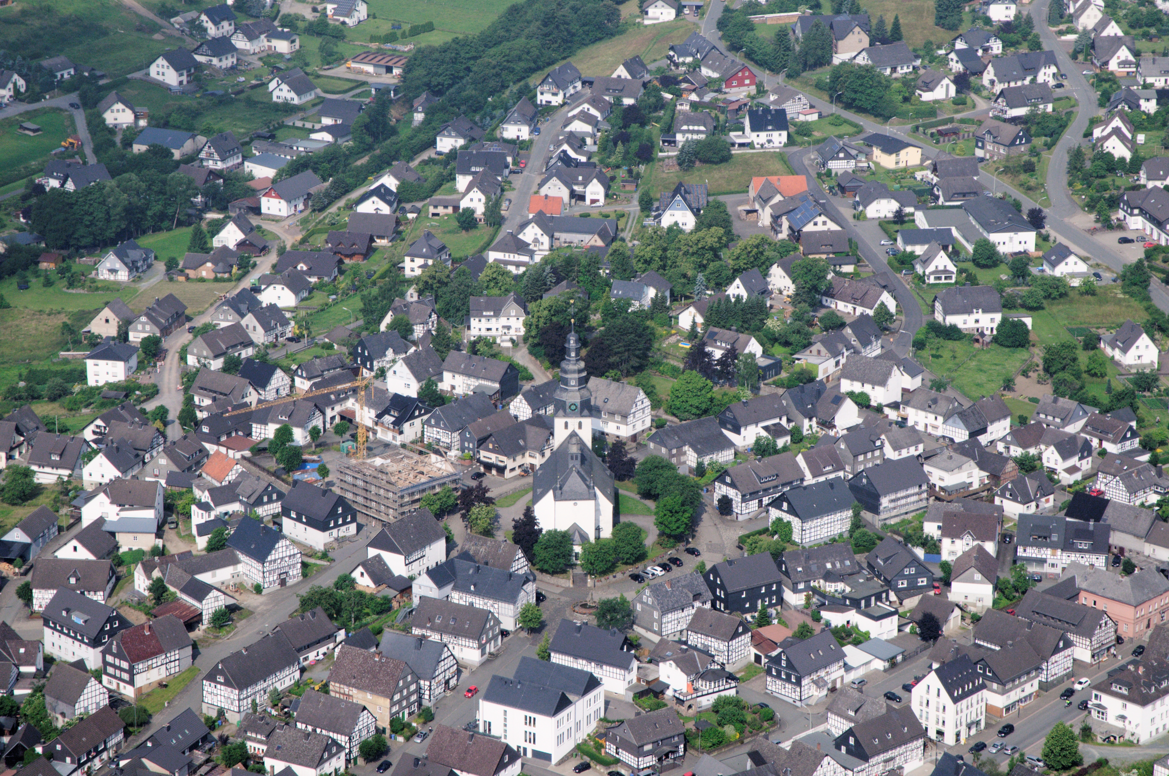 Fotoflug Sauerland-Ost: Hallenberg Ortsmitte The making of this document was supported by the Community-Budget of Wikimedia Germany.